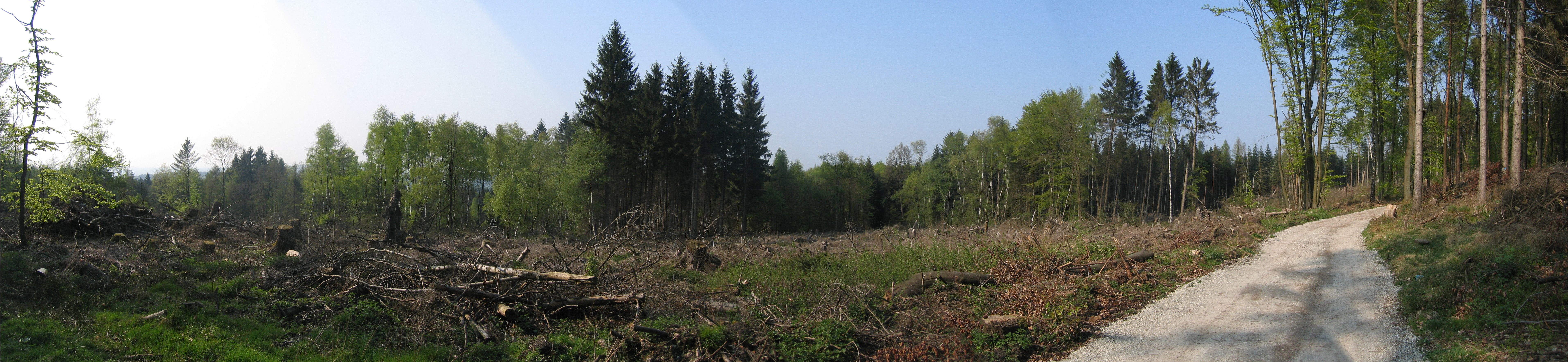 Wittekind hiking trail of Wiehengebirge to Rödinghausen, District of Herford, North Rhine-Westphalia, Germany.